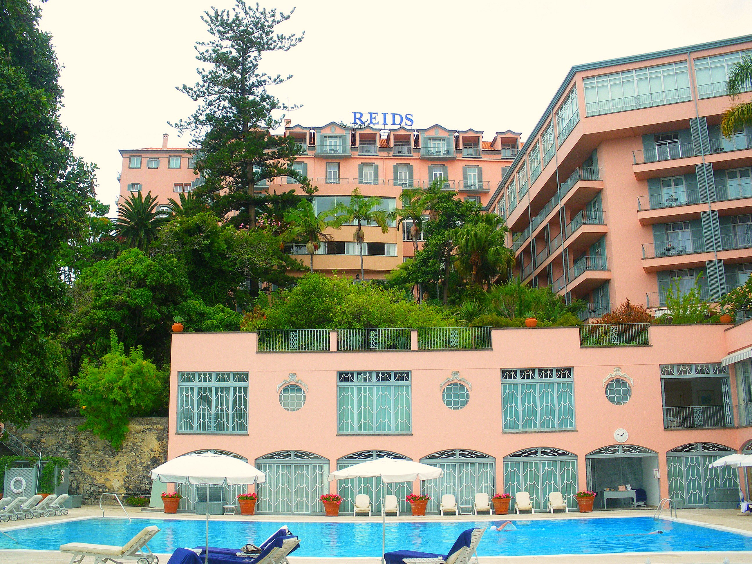 Reid's Palace Hotel, September 2009 - Funchal, Madeira